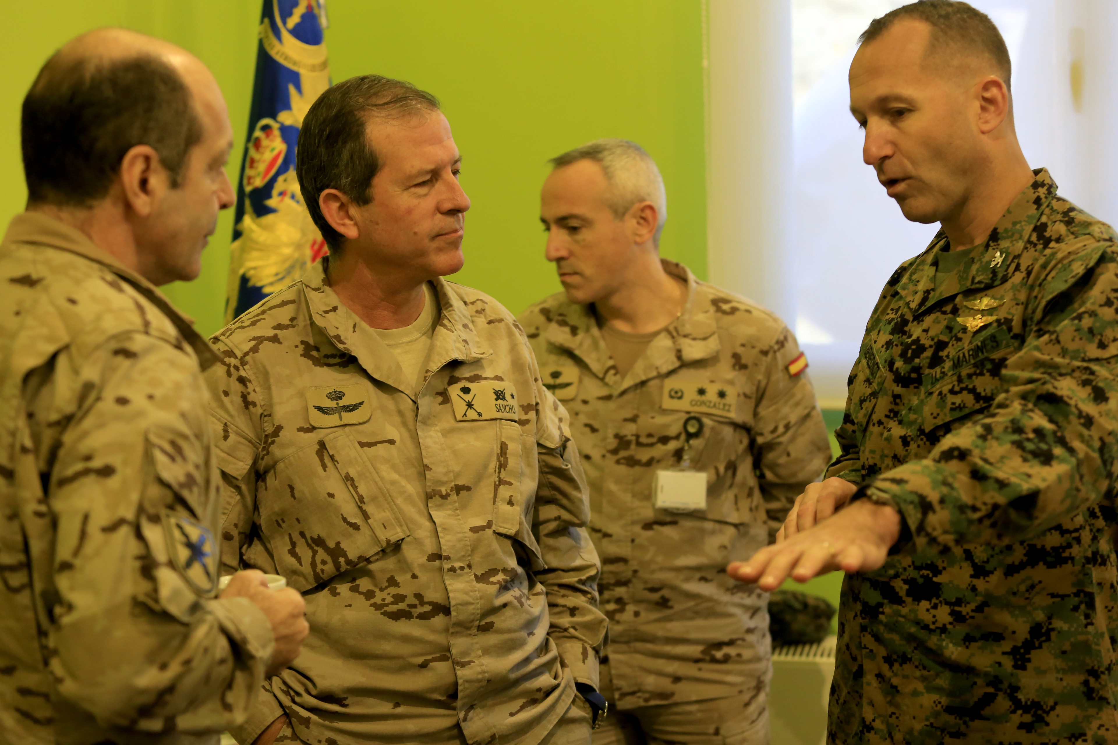 Col. Scott F. Benedict, Commander of SP-MAGTF Crisis Response talks with leaders of Spanish aviation during a visit in Madrid, 2013.